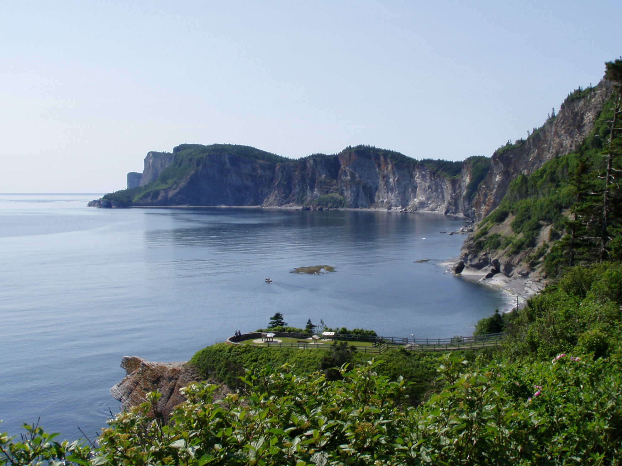 Cap Bon-Ami, on the North side of the Forillon peninsula. Photo taken in July 2005 by Danielle Langlois at the Forillon National Park in Quebec, Canada.